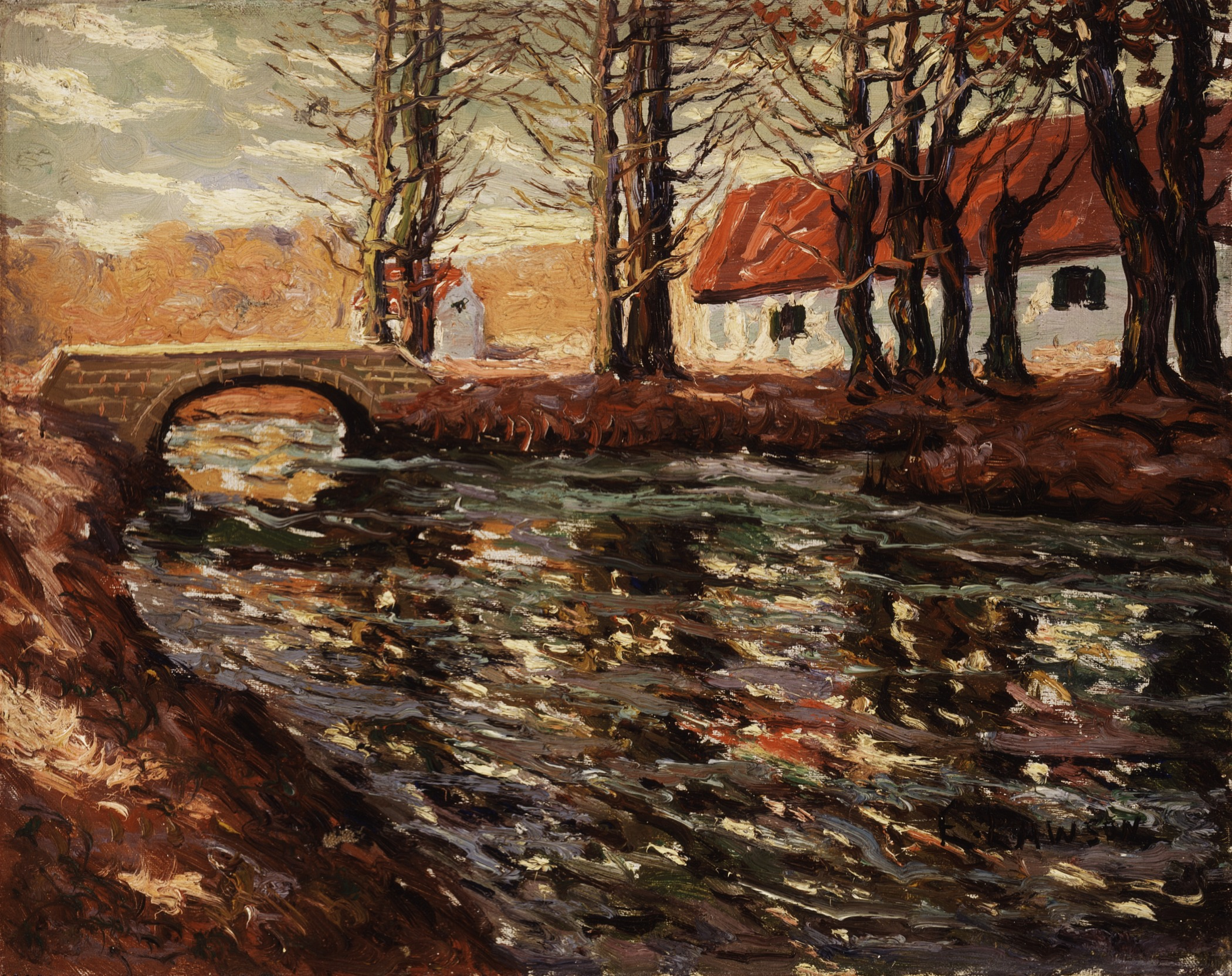 United States, early 20th century Paintings Oil on canvas Gift of Dr. Loren J. Stern (AC1997.270.1) American Art